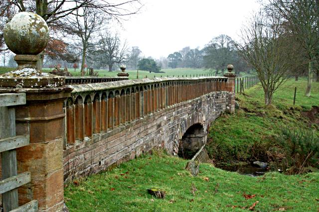 Dreel Bridge Bridge over the Dreel Burn on the private road into Balcaskie House.